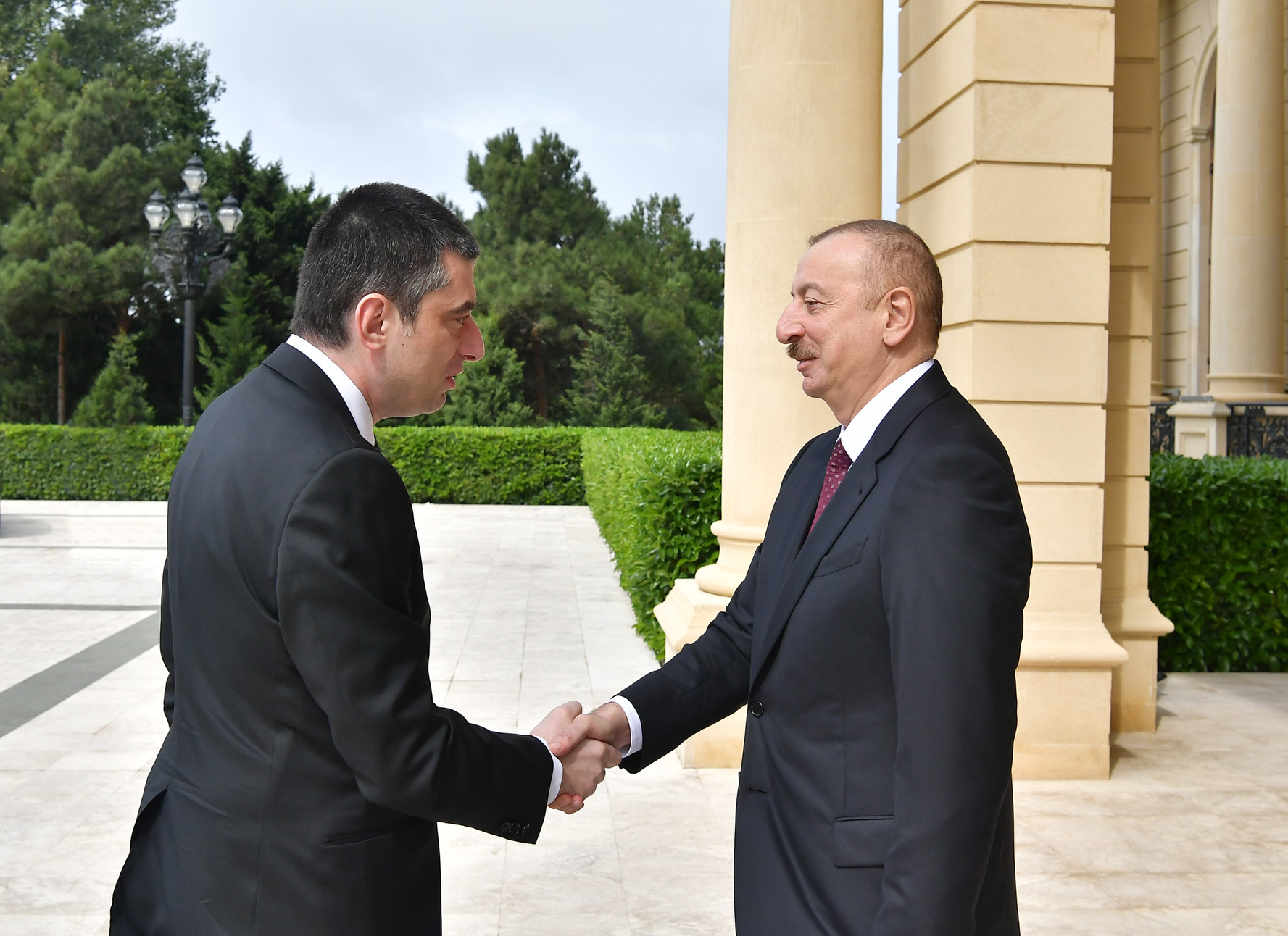 Ilham Aliyev and Prime Minister of Georgia Giorgi Gaharia held a one-on-one meeting